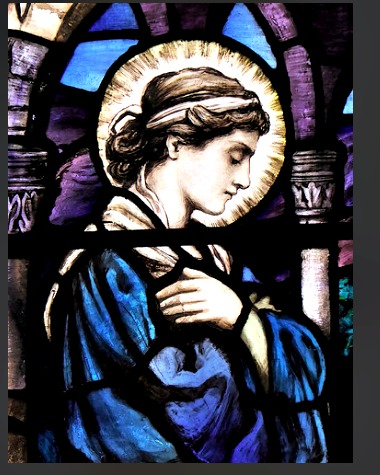 detail of stained glass window by Mary Lowndes, St Andrew, Meonstoke, Hampshire, 1906